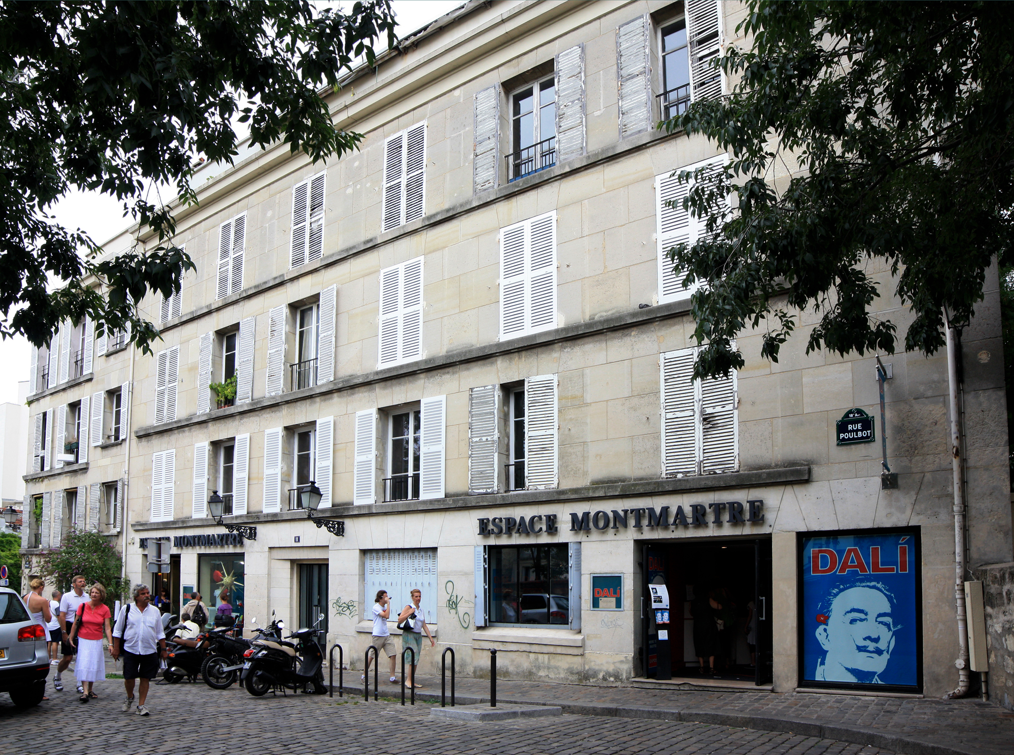 Espace Montmartre = Espace Dali